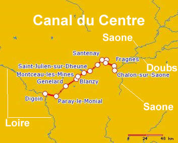 Canal du Centre Map